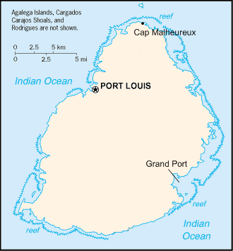 Mauritius map with the three most important historical places